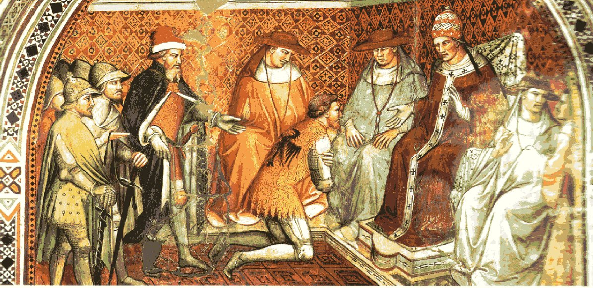 Frederick Barbarossa submits to the authority of Pope Alexander III